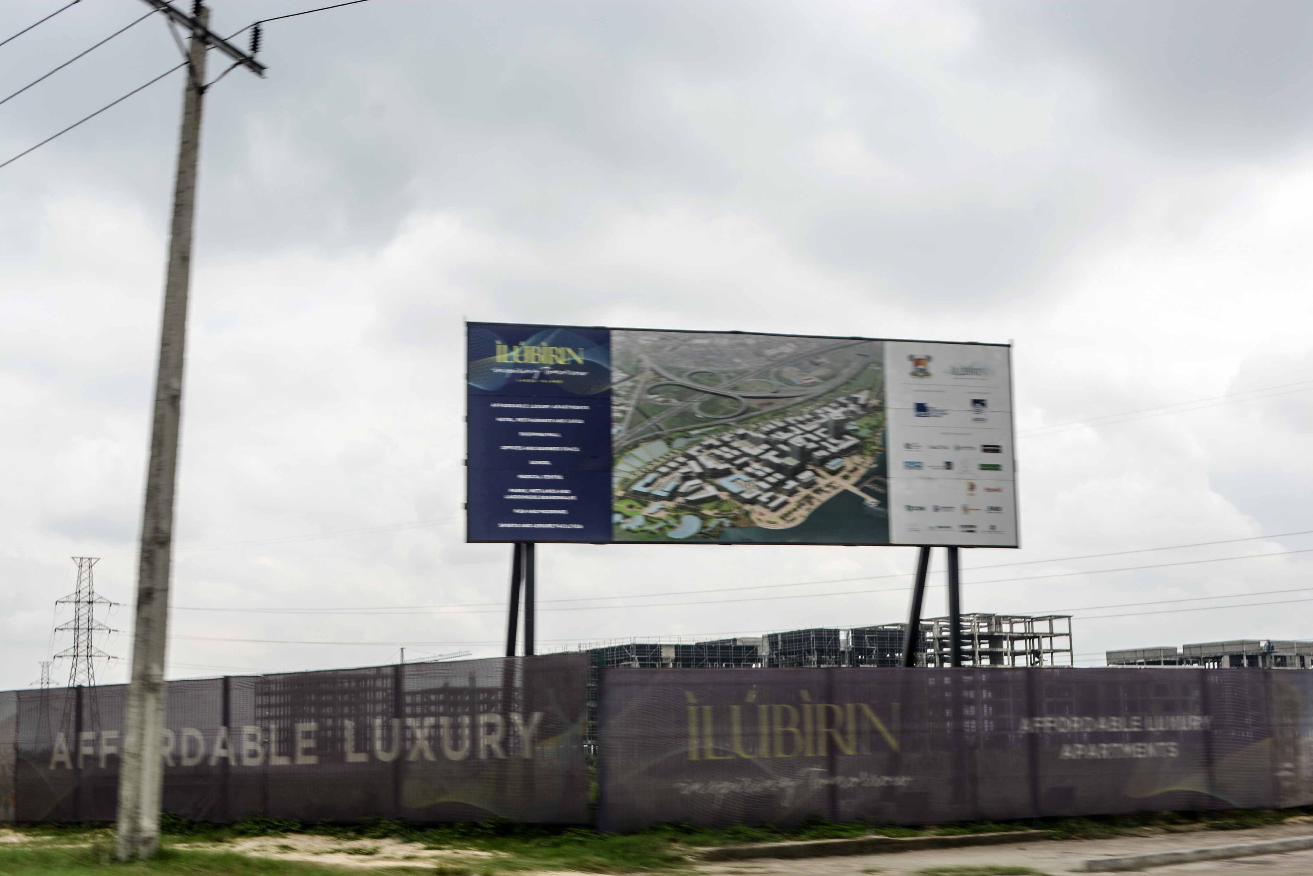 Lagos